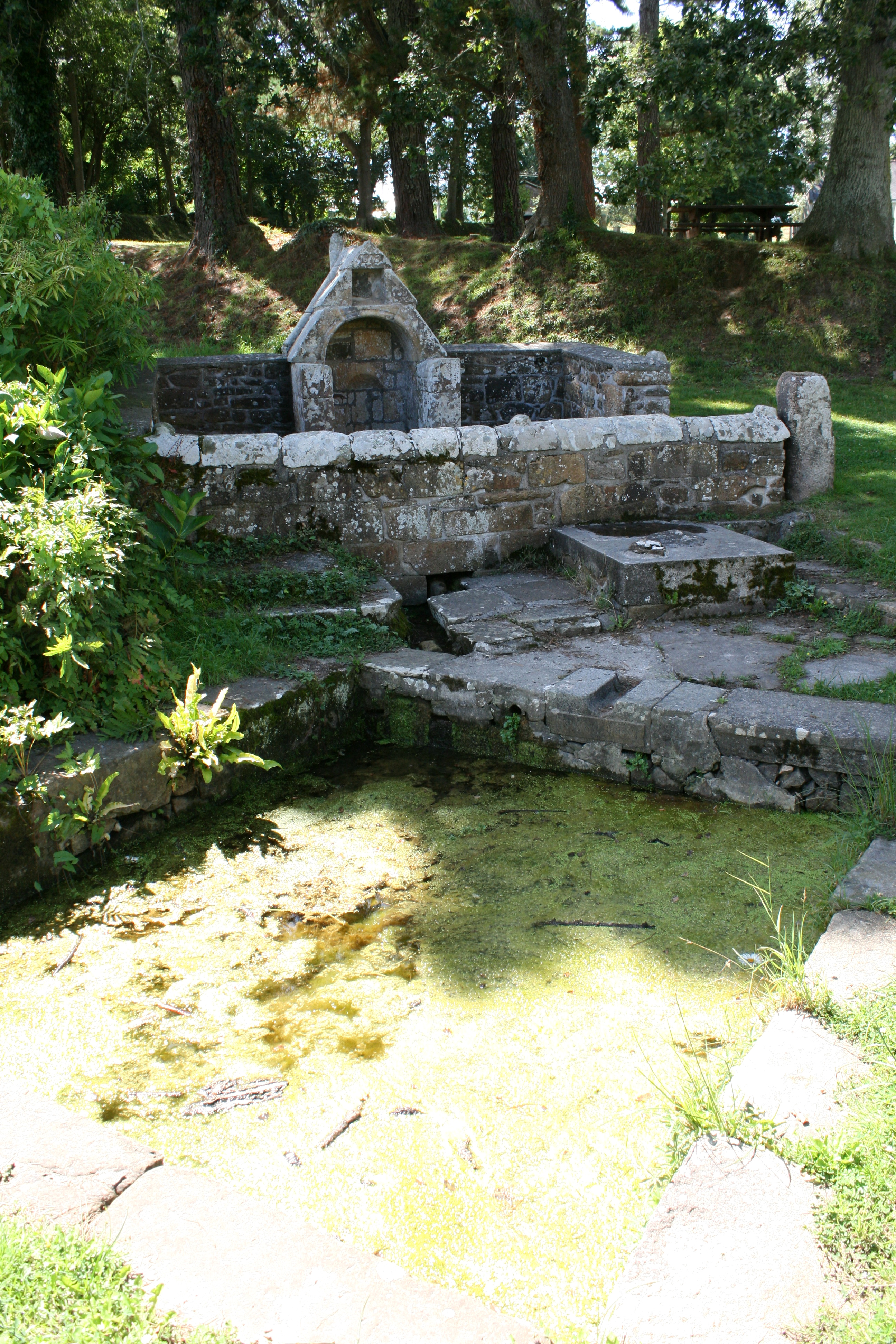 Fountain Saint-Eloi, Roscanvel